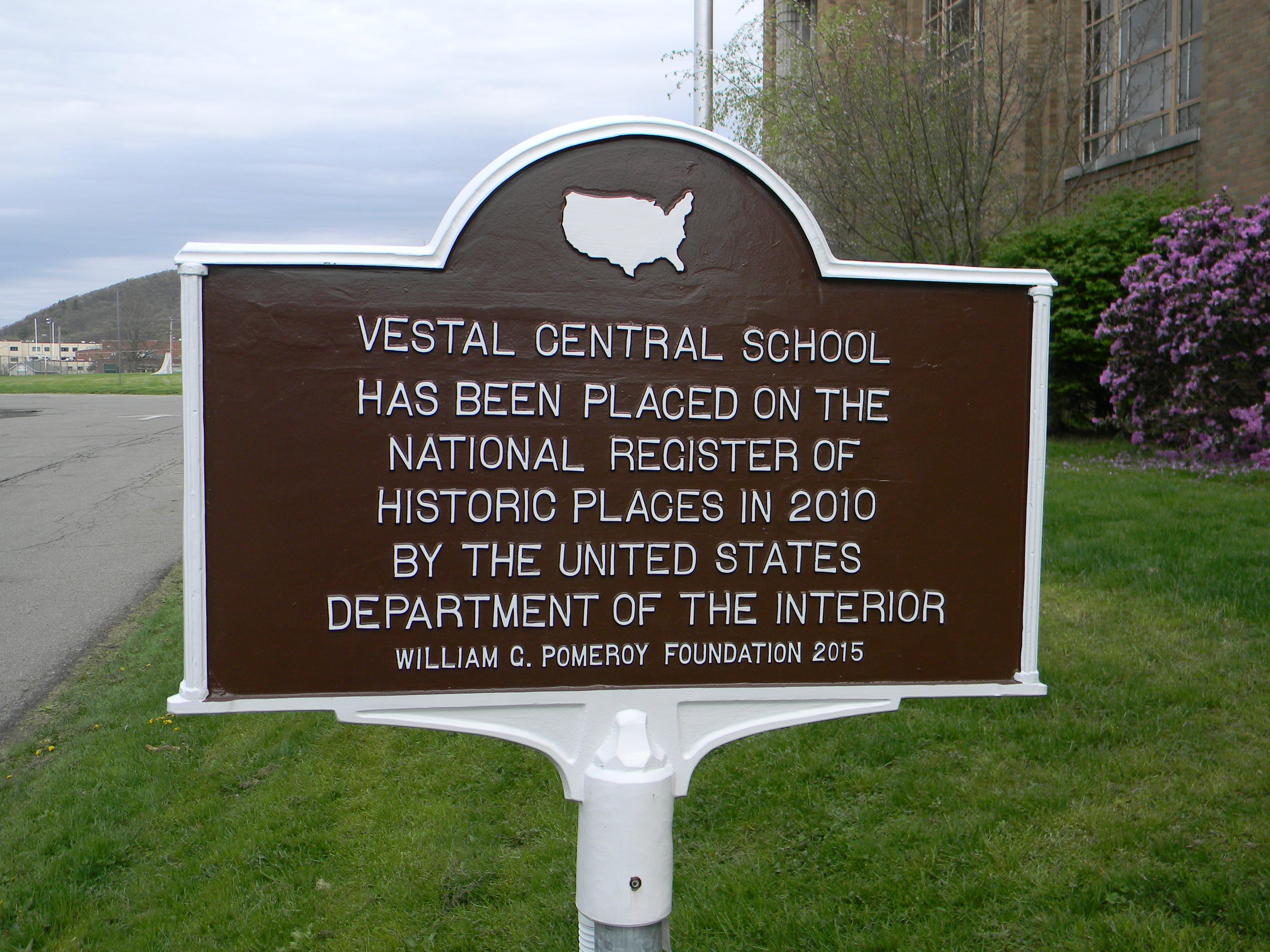 Sign denoting the school being placed on the National Register in 2010, erected 2015